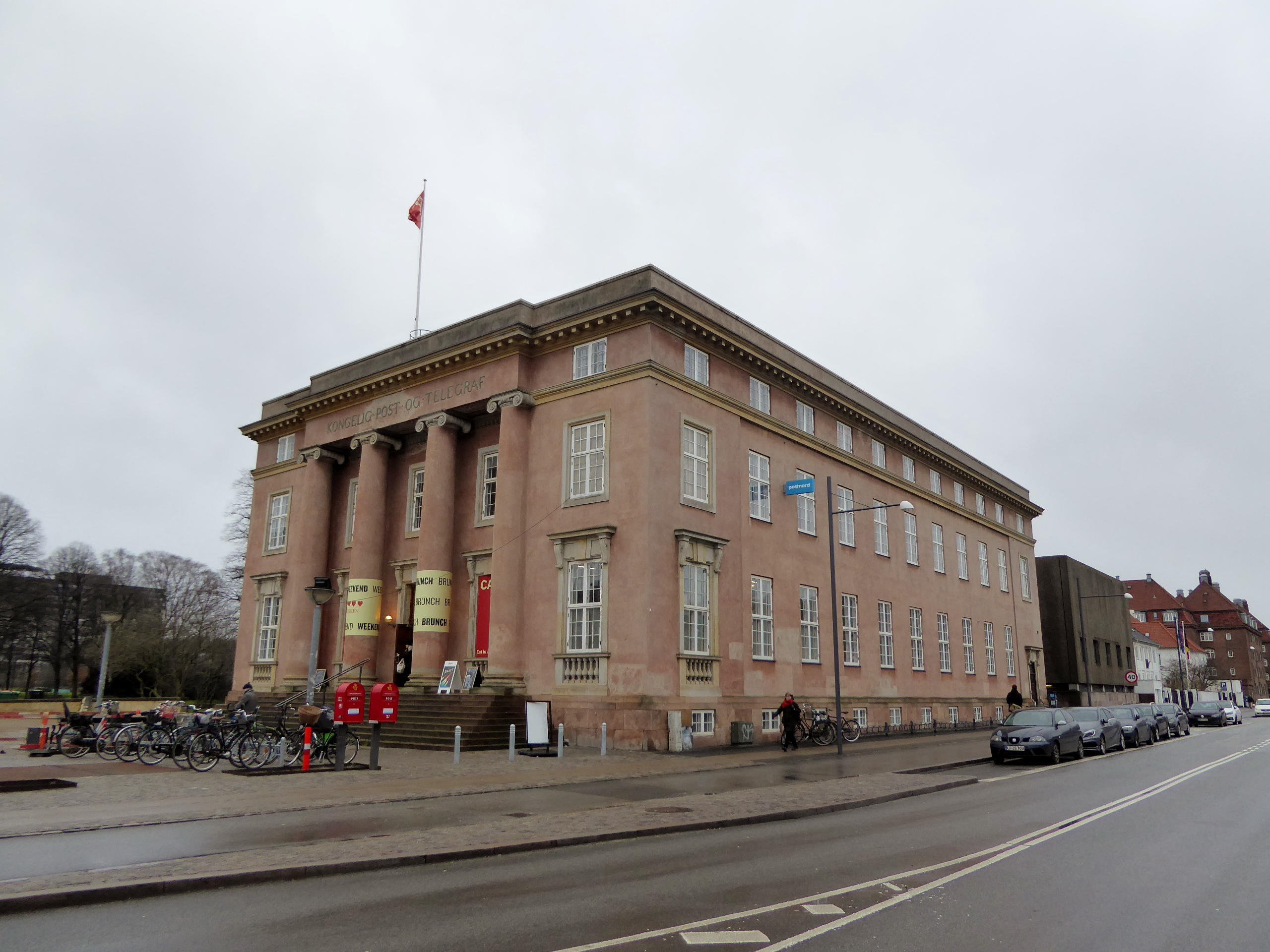 The postal museum Enigma at Øster Allé in Østerbro in Copenhagen.